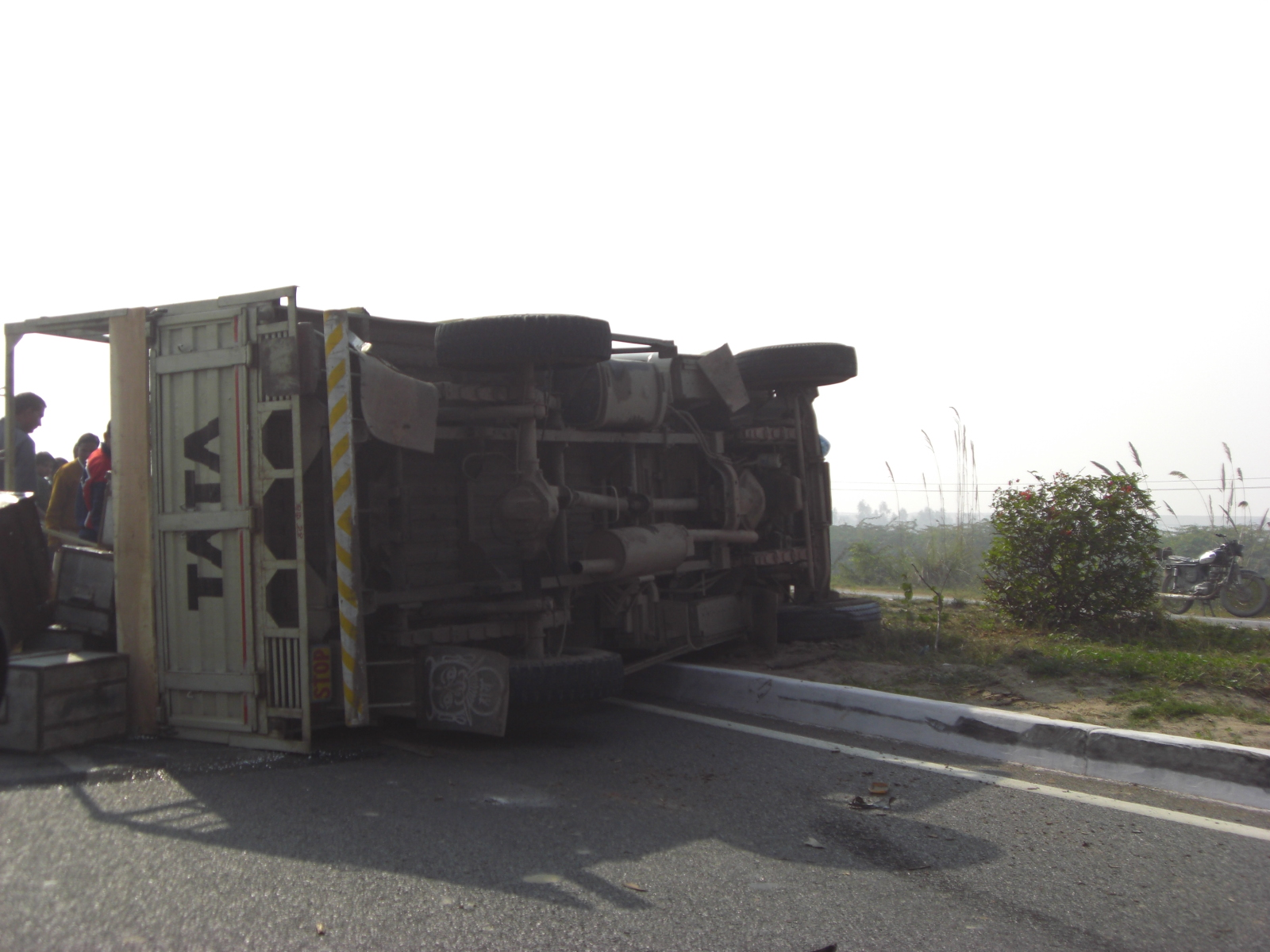 Truck accident in December 2009 near Jaipur, India